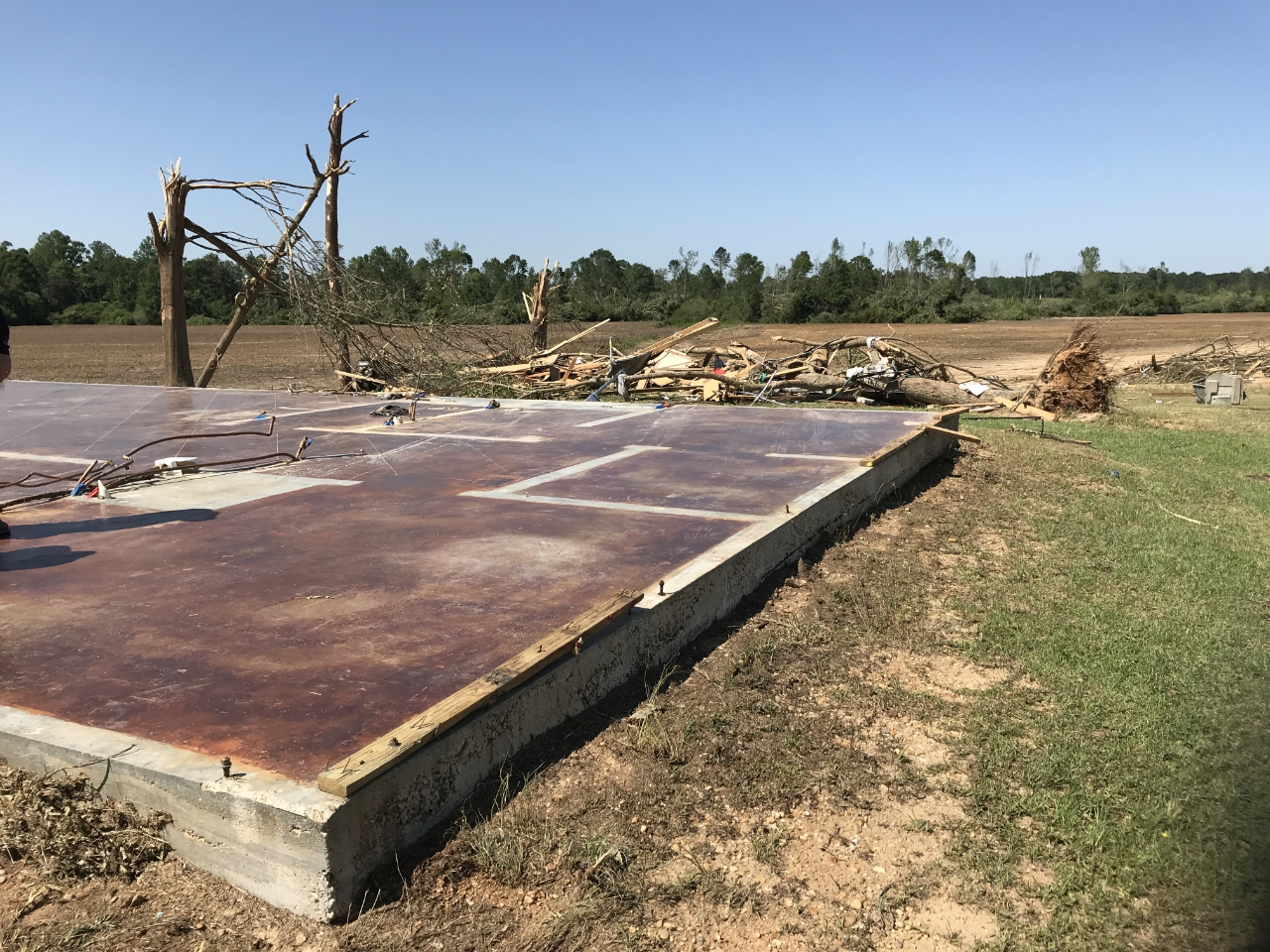 A home reduced to its slab foundation near Cantwell Mill, Mississippi, from a tornado on April 12, 2020.